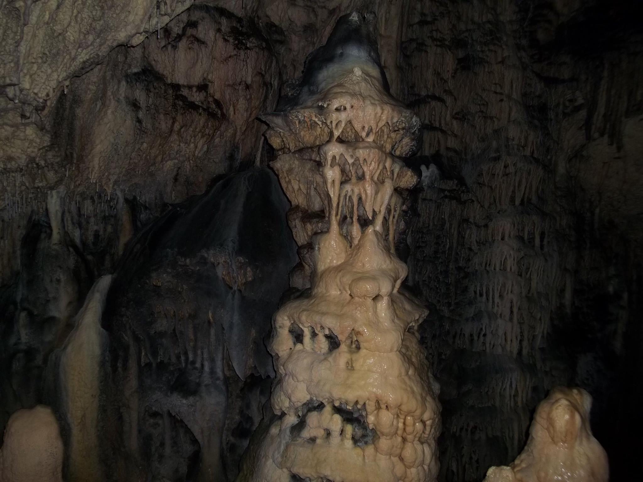 This image was uploaded as part of Trace of Soul 2015.